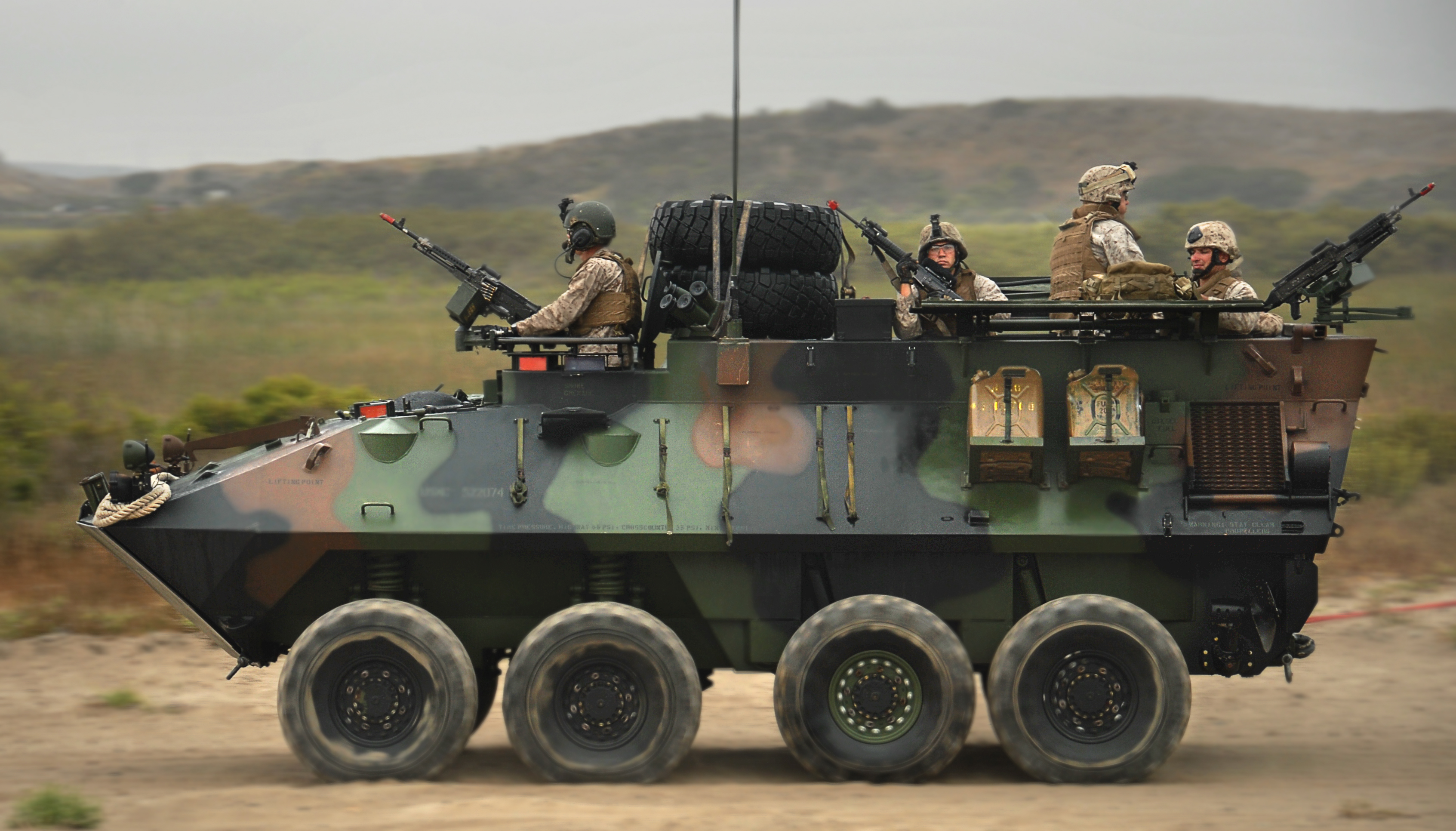 Light-armored vehicle commander Gunnery Sgt. Matthew Vickers, 33, radios fellow members of 1st Light Armored Reconnaissance Battalion, which conducted the tactical recovery of a simulated missing pilot here July 2.